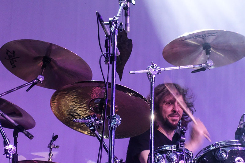 Marco Minnemann, Aarhus Denmark 2016